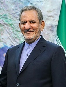 Eshaq Jahangiri